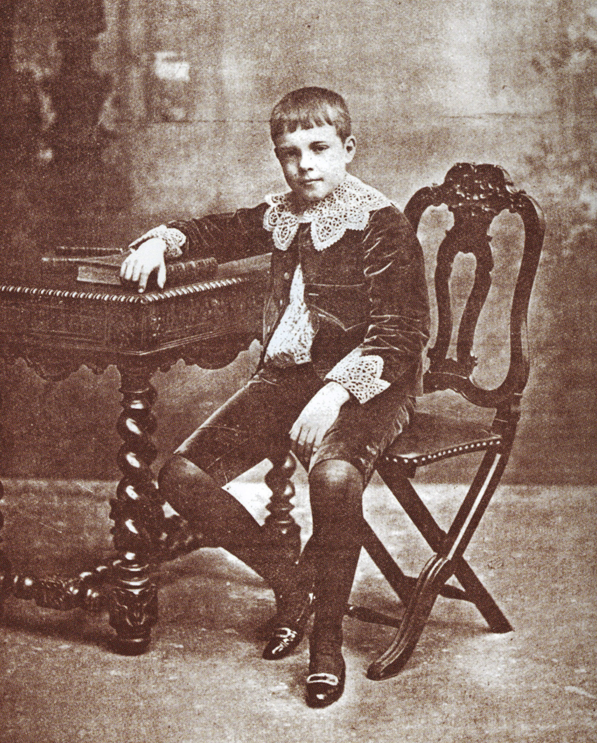 Young Manuel II of Portugal, 12 years old.